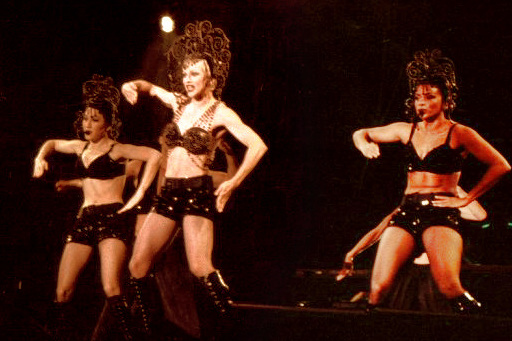 Photo taken during one of the concerts in 1993